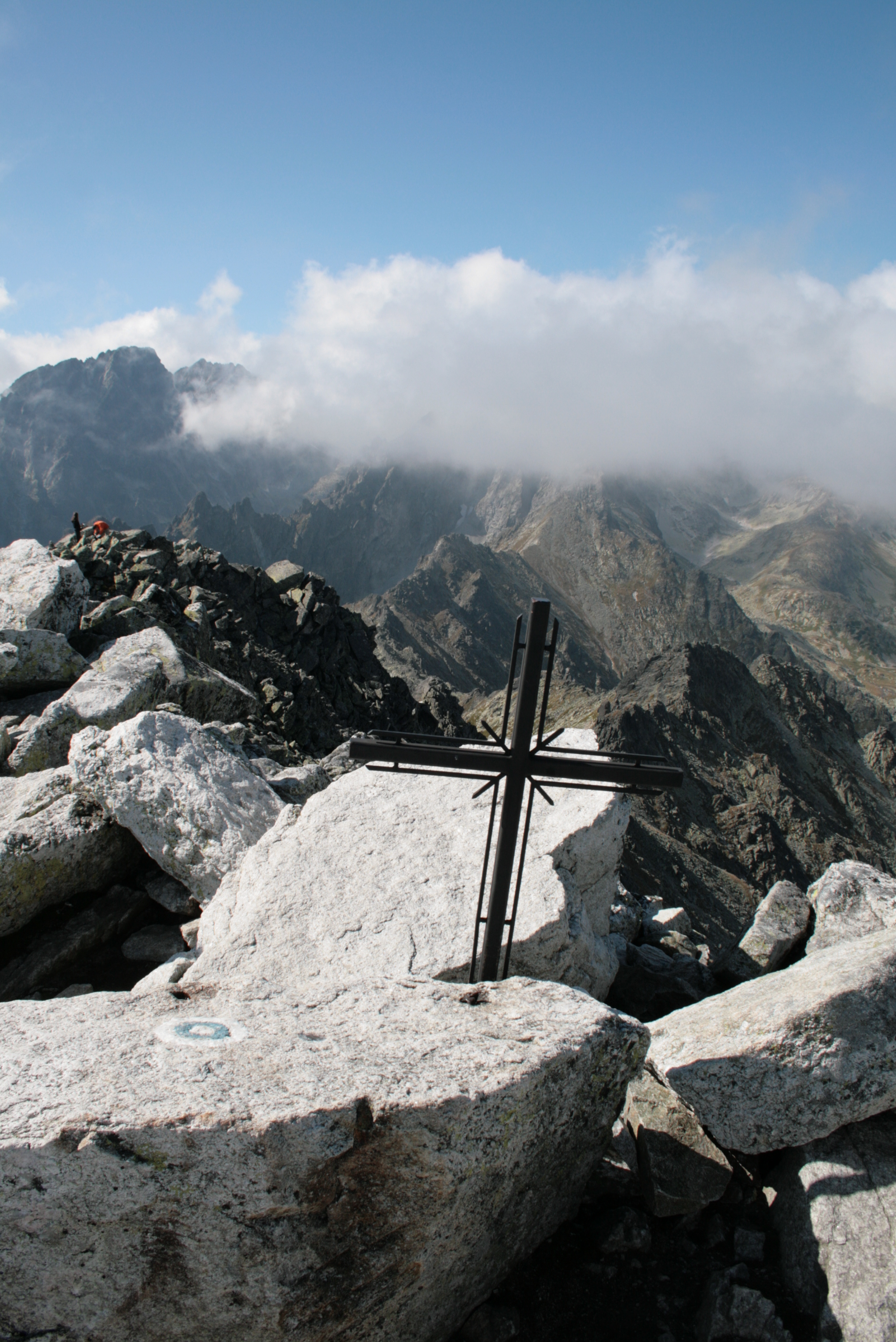 Peak of Slavkovský štít (High Tatras, Slovakia).